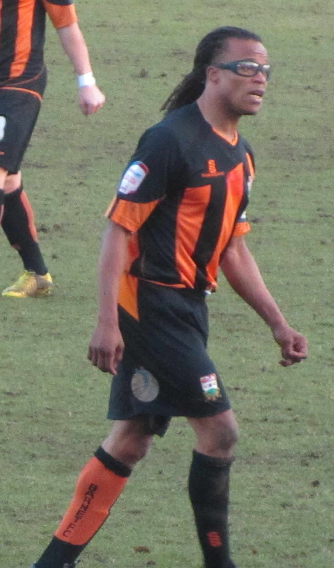 Edgar Davids.